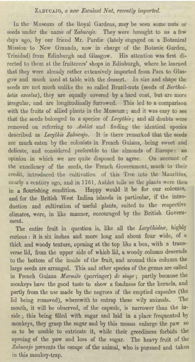 Description of Lecythis zabucajo from Hooker's Journal of Botany Miscellany - vol1 (1849)